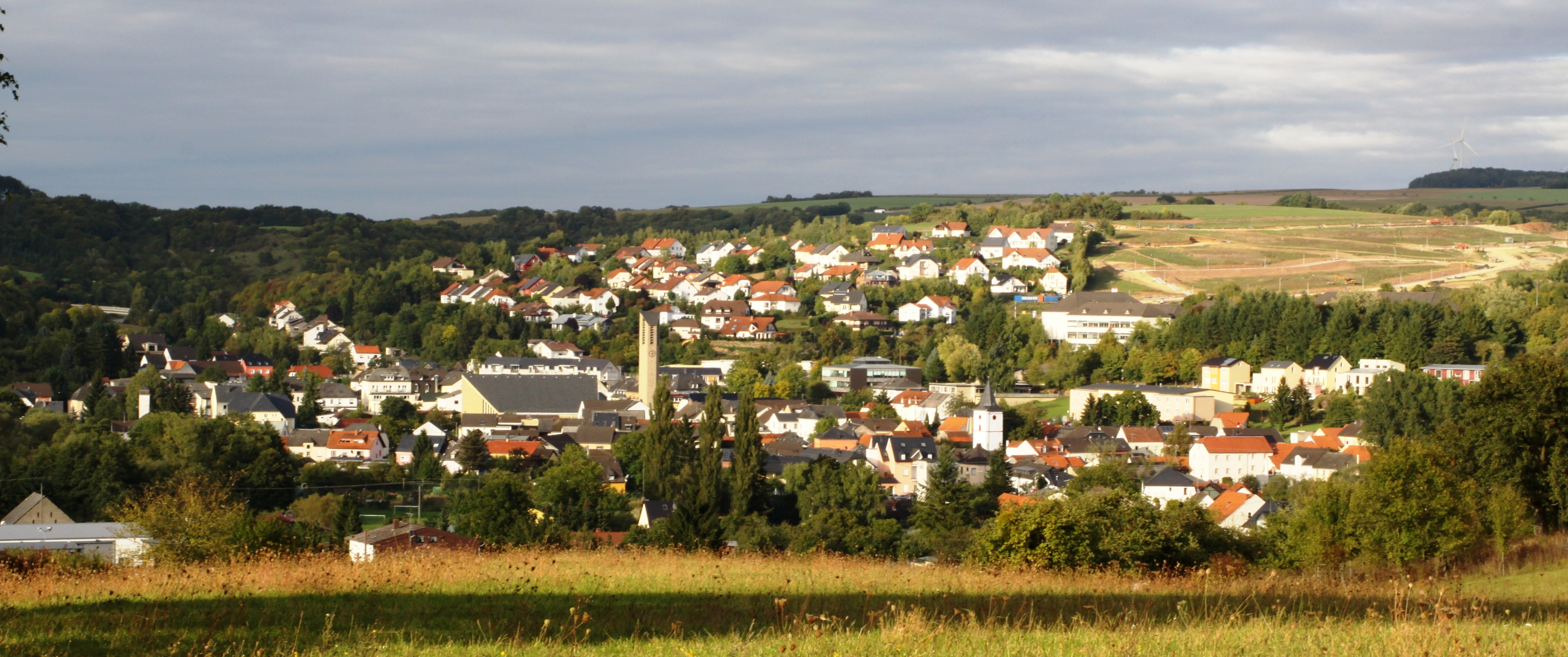 Irrel seen from the B257